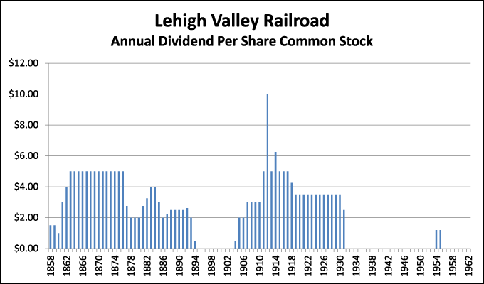 Chart of the annual dividends on the common stock of the Lehigh Valley Railroad